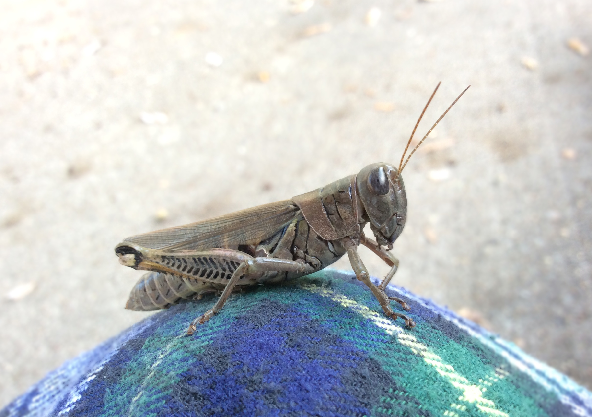 A differential grasshopper on knee of pants